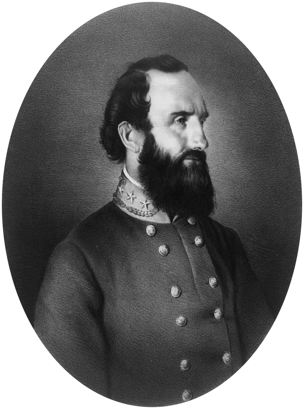 Gen. T.J. Jackson (Stonewall) / J.L. Giles lith.